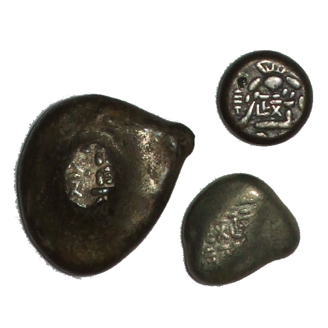 Seizi-mameitagin(silver beans)